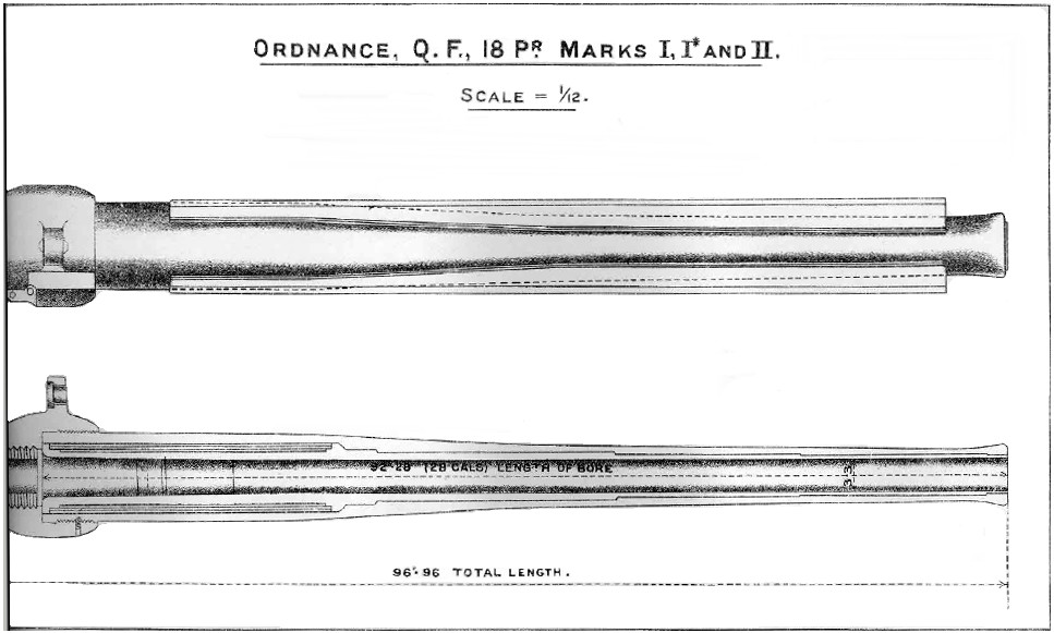 Diagrams depicting external and internal details of QF 18-pounder Mk I & Mk II gun barrel.